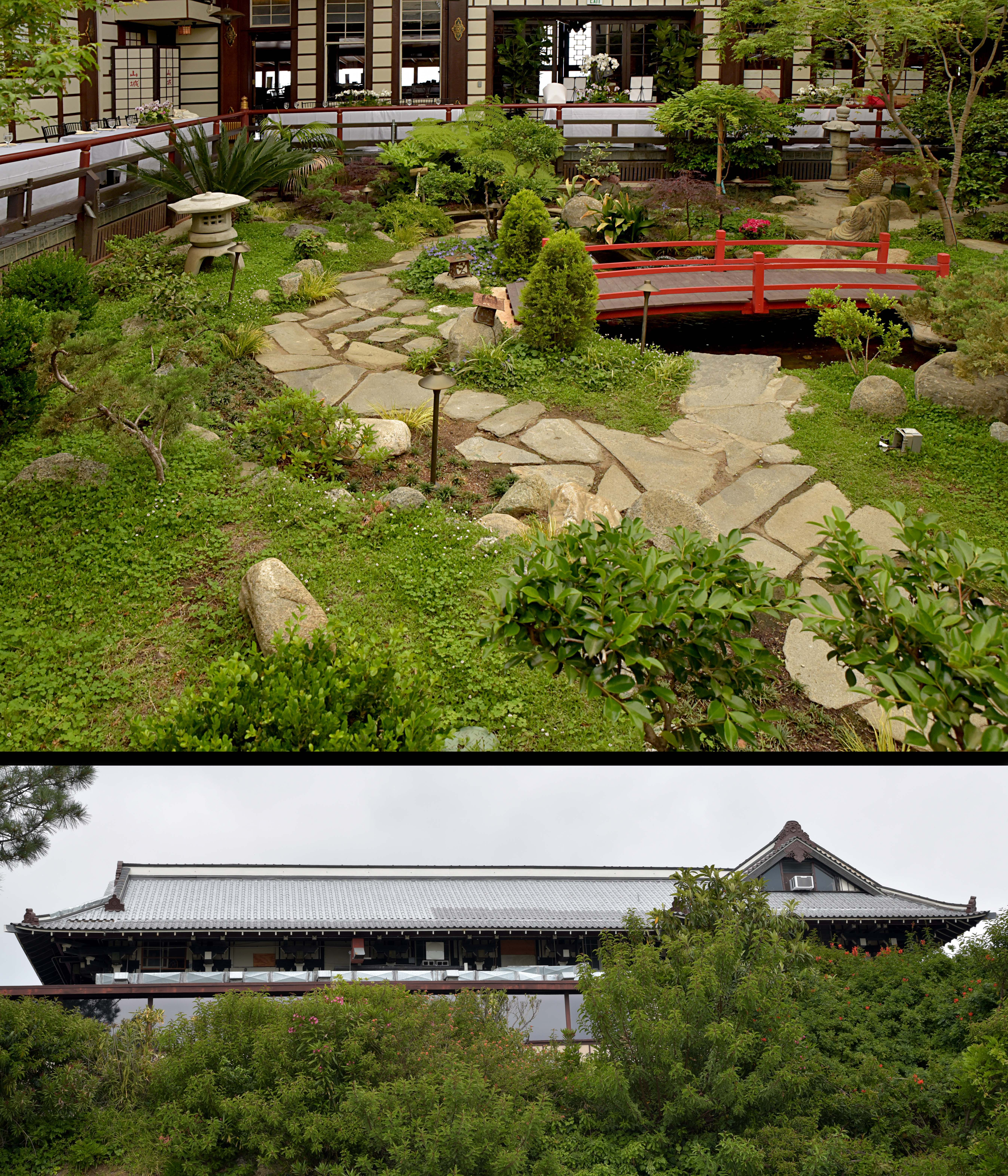 Yamashiro Restaurant inside (top) and west side (bottom) June 2019 - Photo by Glenn Francis of